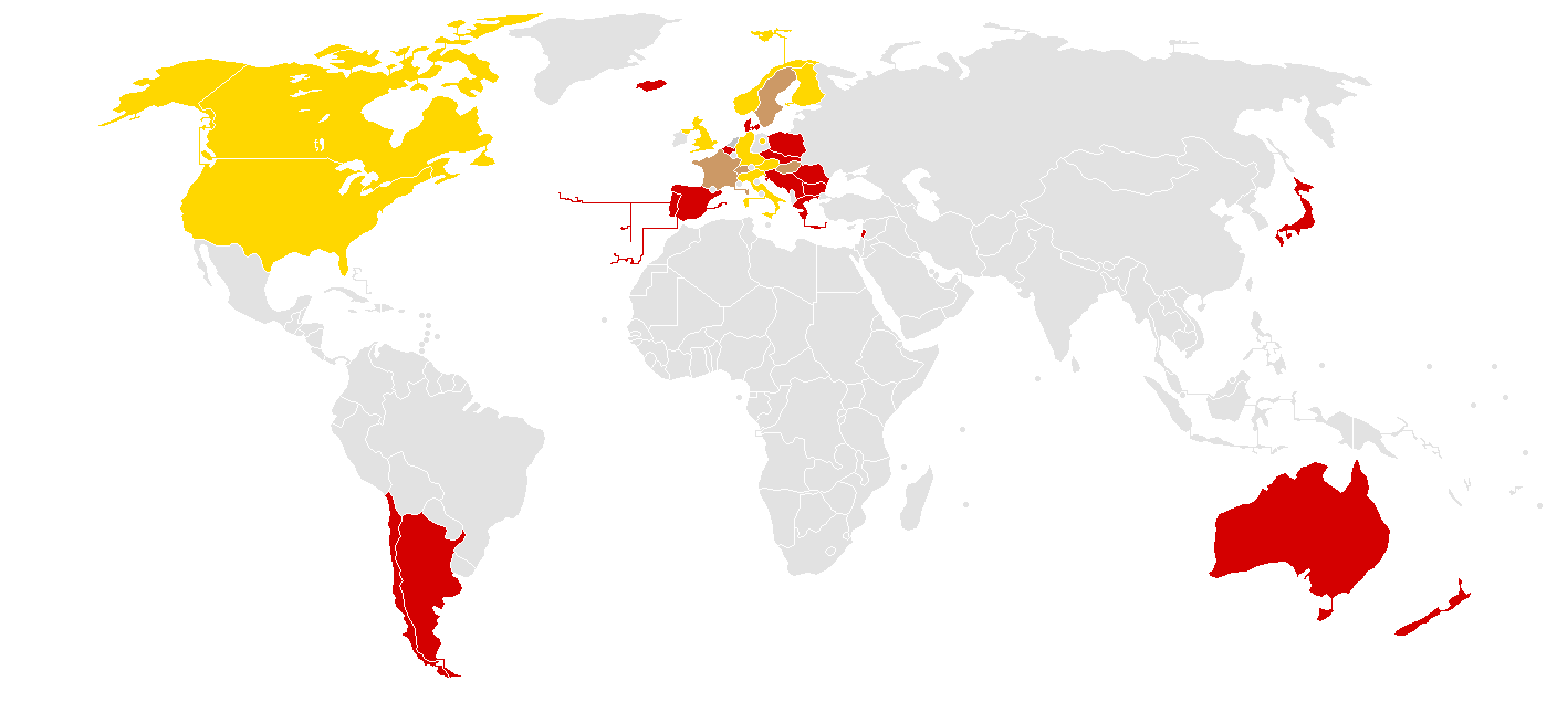 Countries with at least one gold medal Countries with at least one silver medal Countries with at least one bronze medal Countries that didn't get any medal Countries that did not participate